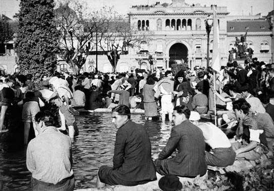 Photo of Juan Perón's supporters in Plaza de Mayo. The photo is popularly known as Las patas en la fuente.